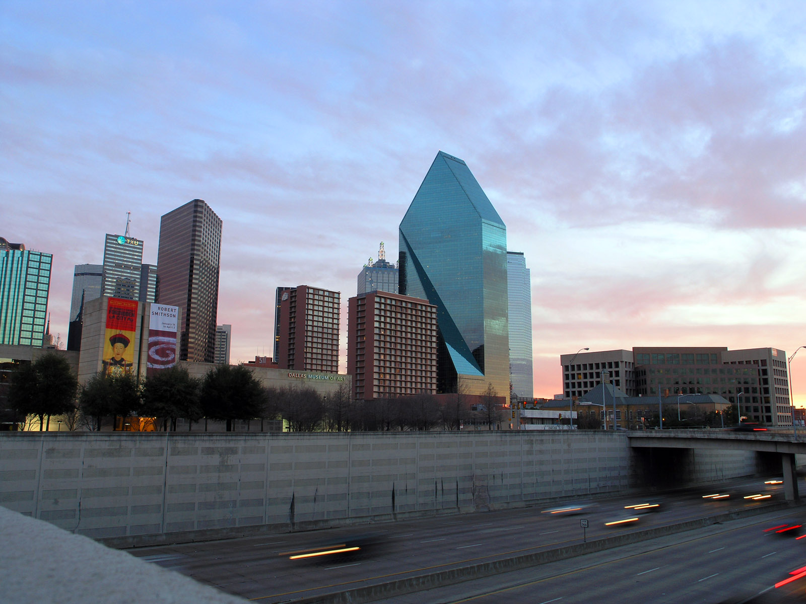 Woodall Rodgers Freeway (SH 366) in Dallas, Texas (USA). Facing south-southwest from Harwood Street towards downtown, with the angular Fountain Place dominating the view. Oncoming traffic is travelling northeast towards Central Expressway (US 75) and I-345. Passing traffic is travelling southwest towards I-35E.